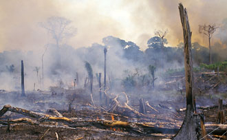 Slash and burning in Brazil